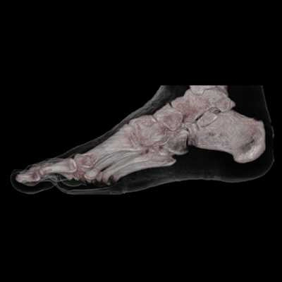 Human Foot, sagital view, Bone and transparent skin, 3D reconstruction from CT-scans